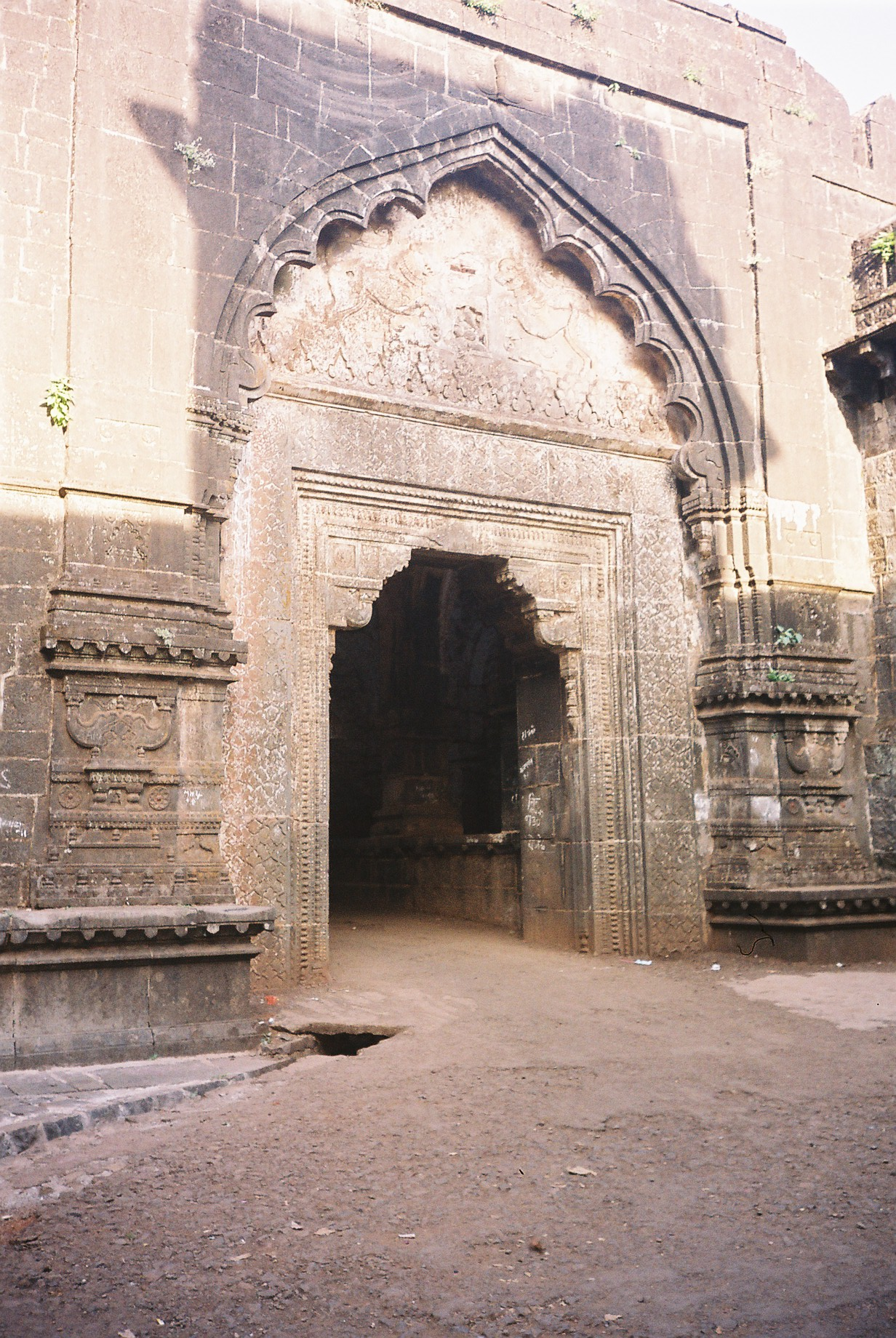 Entrance to Panhala fort, Maharashtra, India